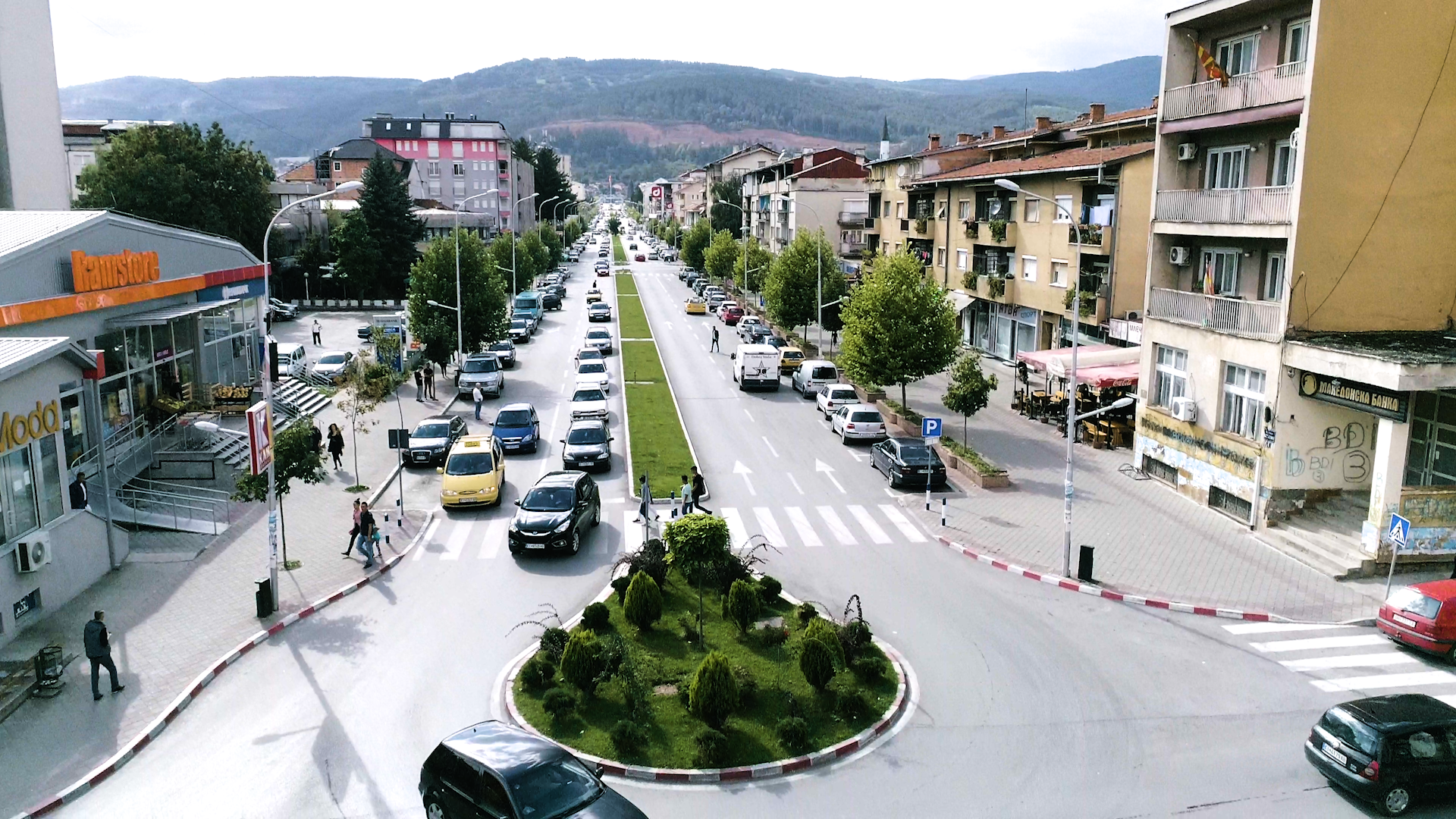 Kicevo